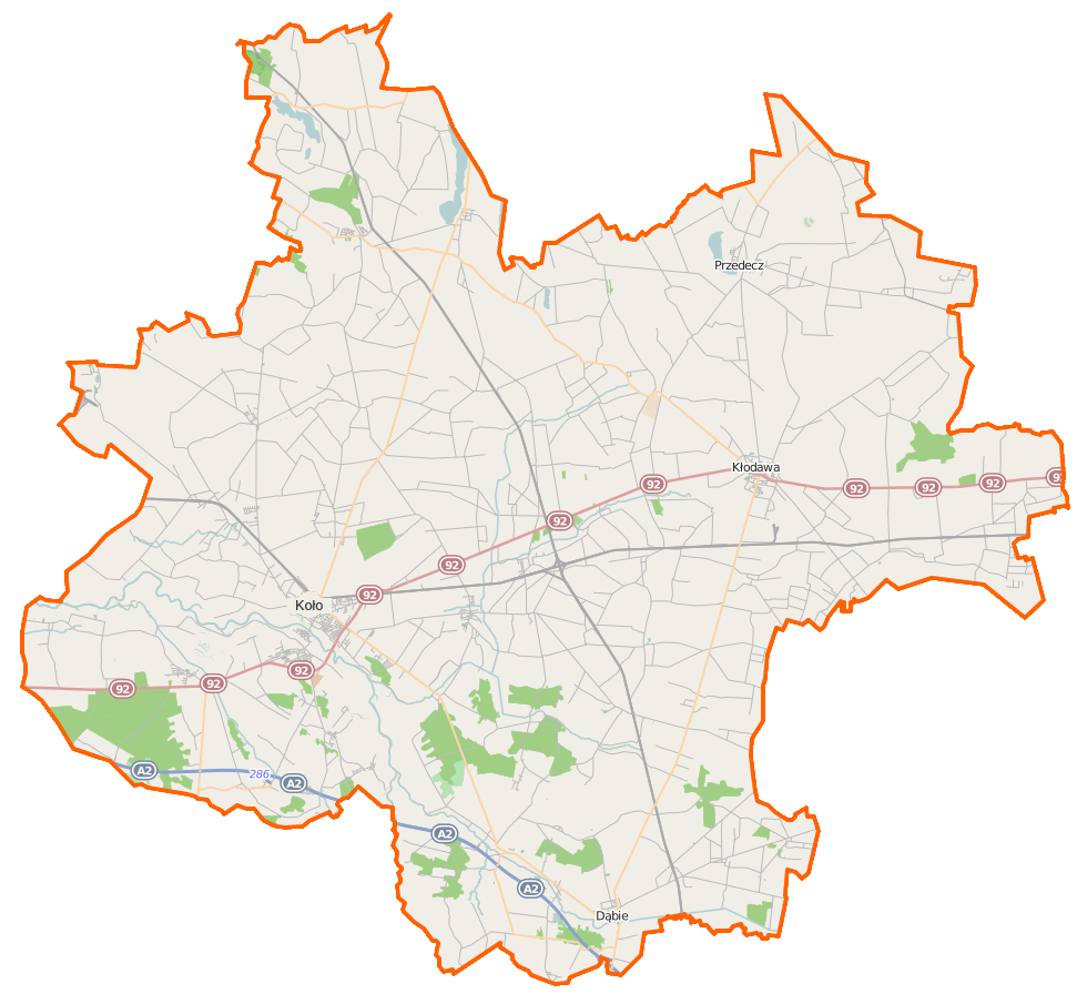 Map of Powiat kolski, Poland This map of Powiat kolski was created from OpenStreetMap project data, collected by the community. This map may be incomplete, and may contain errors. Don't rely solely on it for navigation. Border coordinates52.433418.4433←↕→19.116252.0533